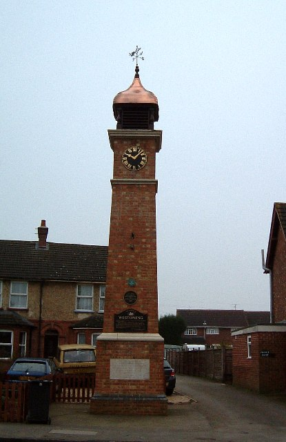 Westoning : The Clock Tower. This Clock Tower is well endowed with informative tablets and plaques. It was originally erected by "J.G. Coventry Campion and his wife" (though I doubt that they personally laid the bricks) to commemorate the Diamond Jubilee of Queen Victoria in 1897. It was renovated in both 1975 and 2003 the latter perhaps to mark 50 years since Queen Elizabeth II's coronation.